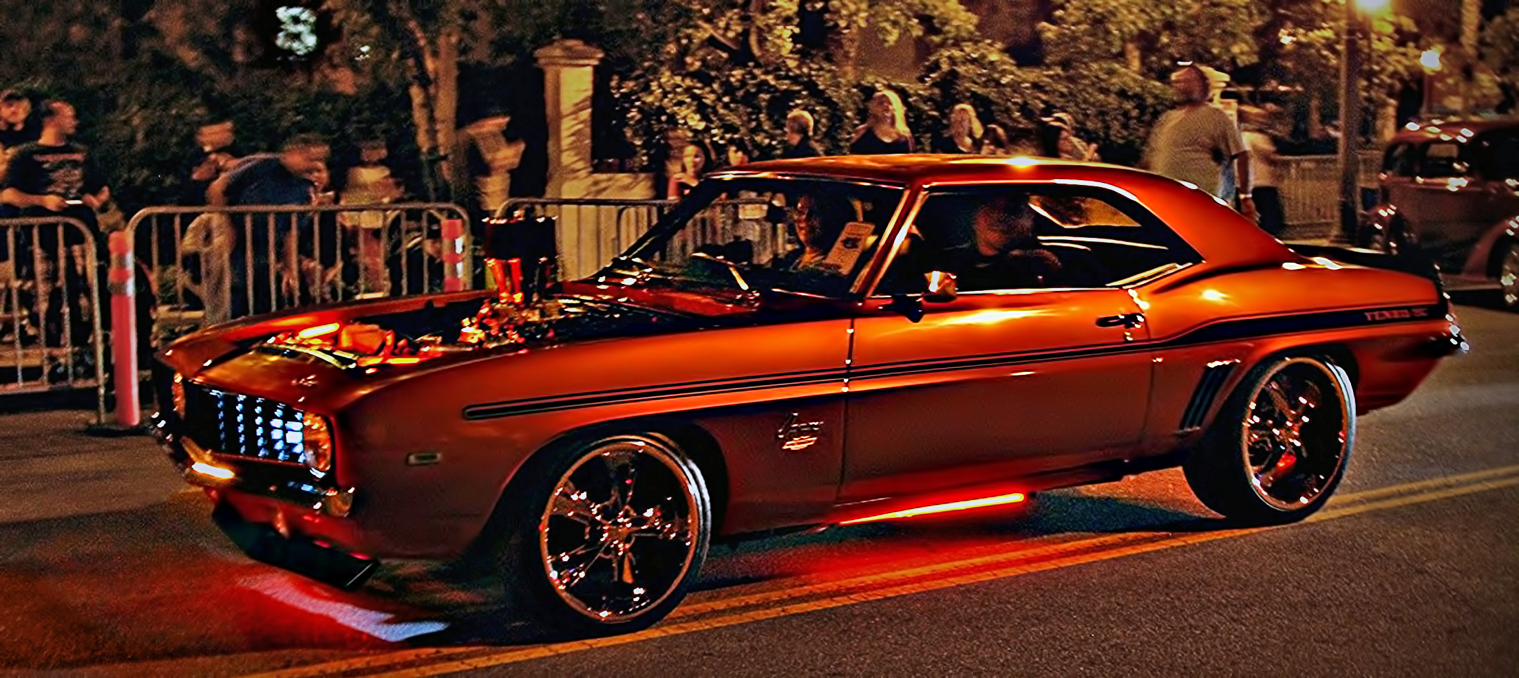 COPO Camaro